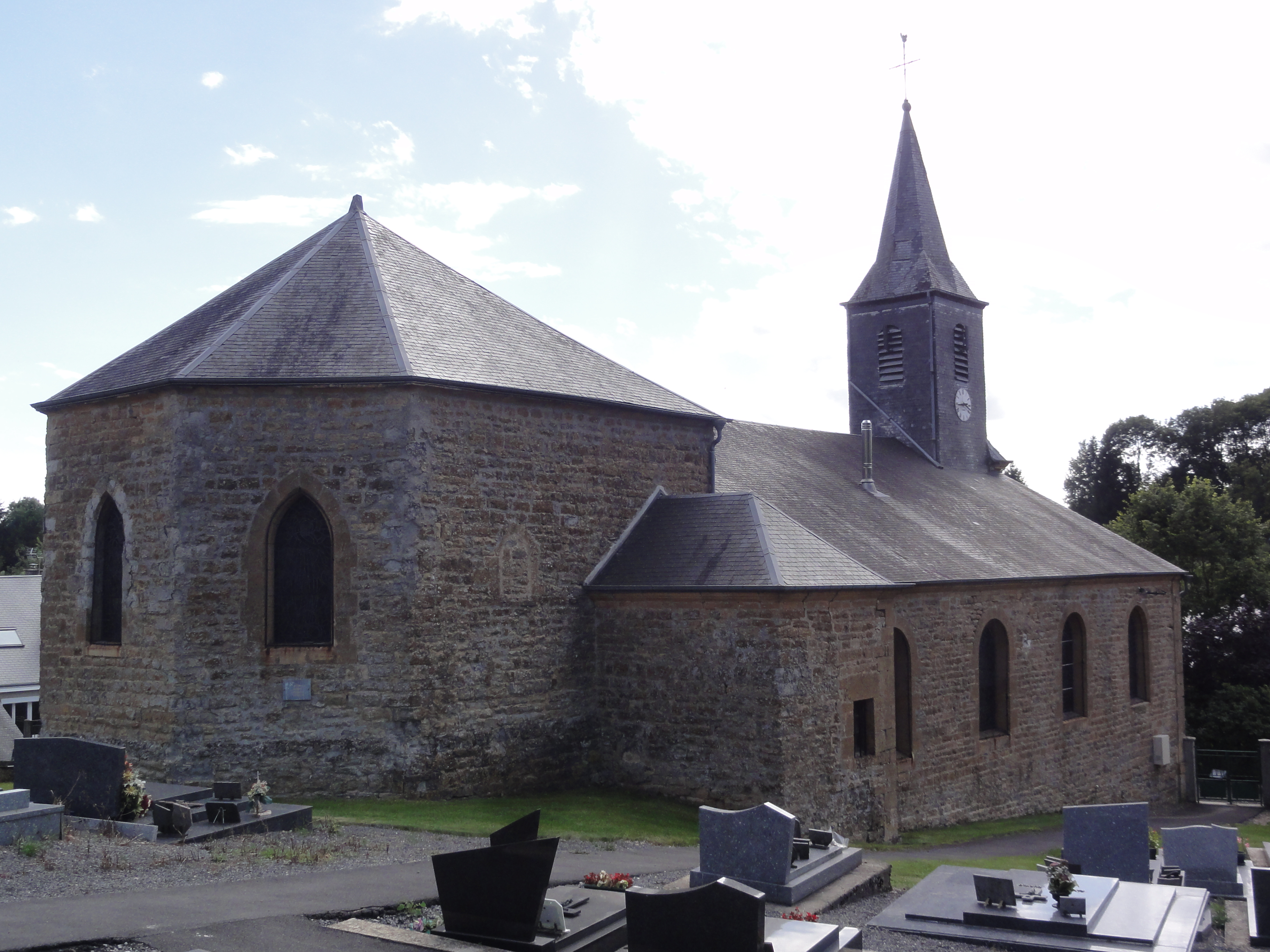 Houldizy (Ardennes) église, chevet